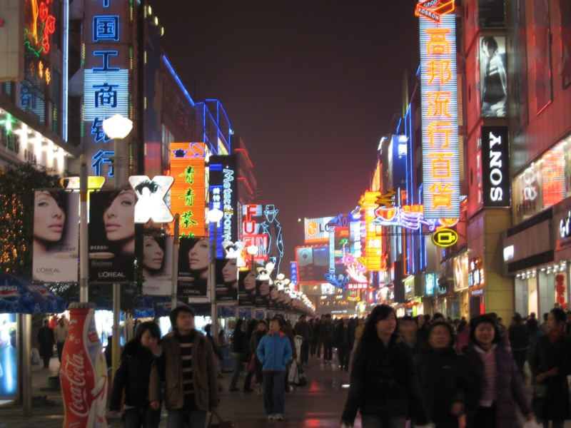 Taken on 27 January 2006 by BenBen. The Chunxi Road in Chengdu, China. There was a little fog that day.